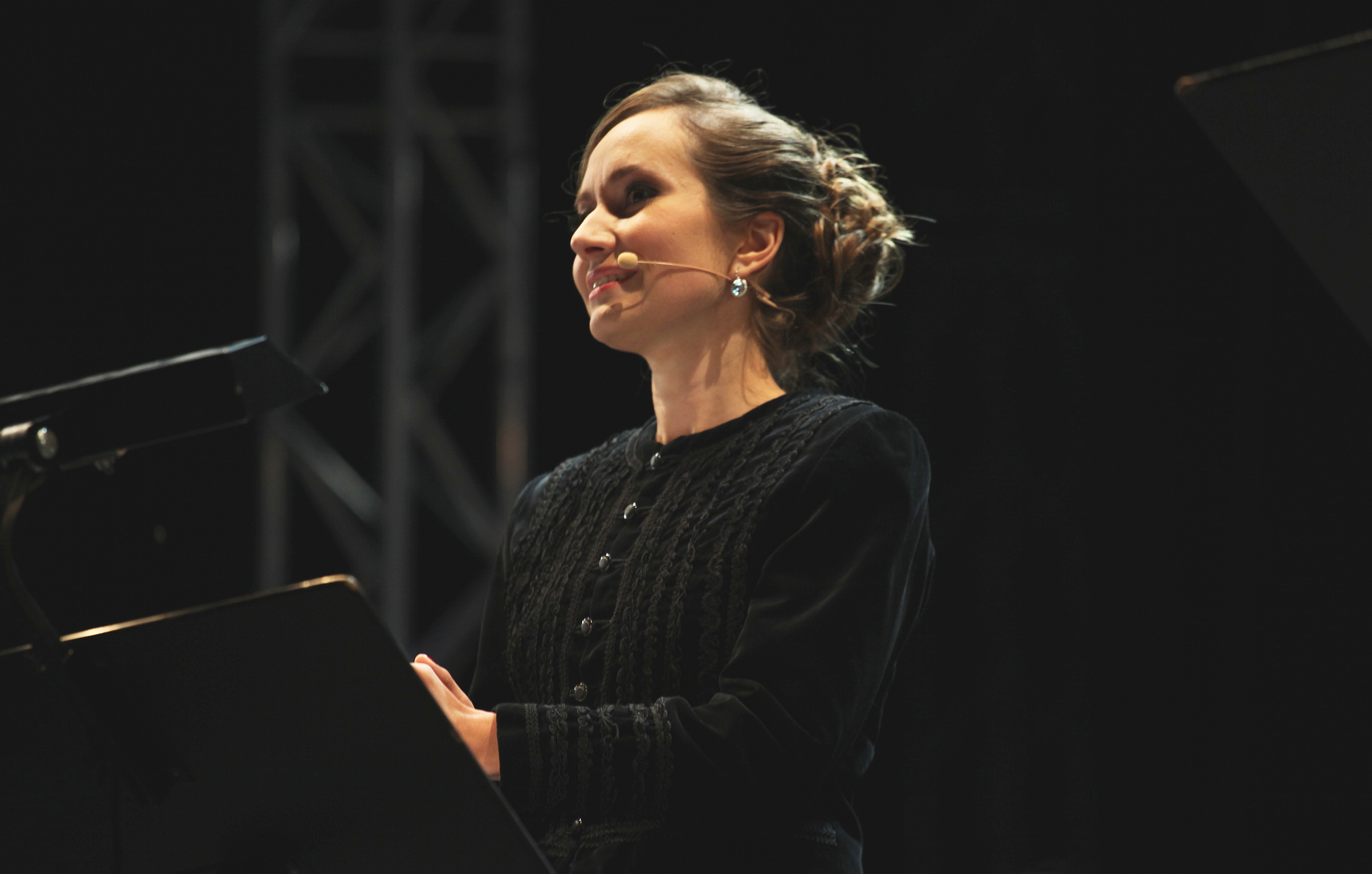 Operasinger Jevgenija Sotnikova (Evgenia Sotnikova) performing the Countess från Nozze de Figaro by Mozart on stage Stortorget Malmoe Sweden